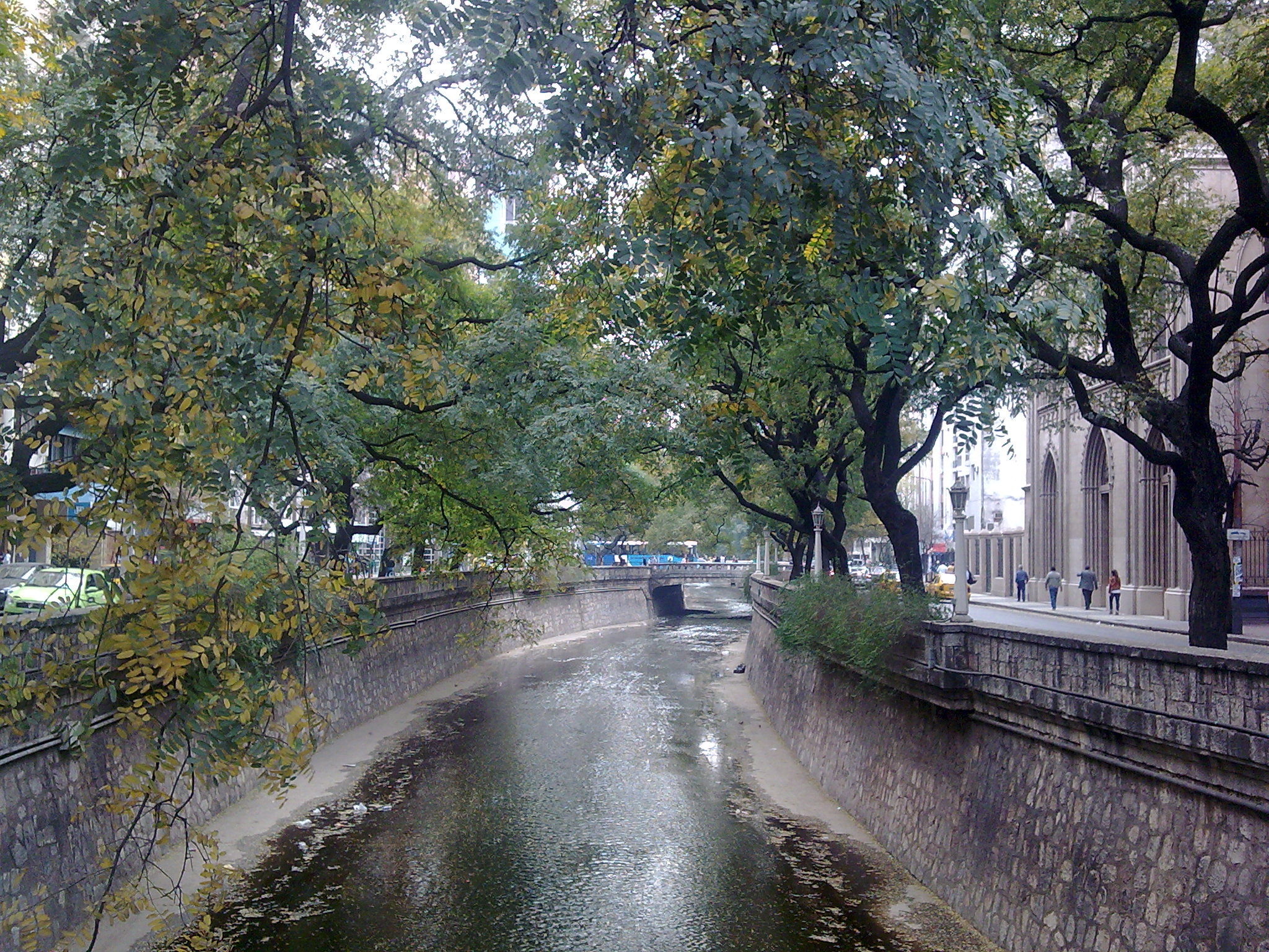 La Cañada glen. Viewed from the corner of 9 de julio street and Figueroa Alcorta. Cordoba, Argentina.